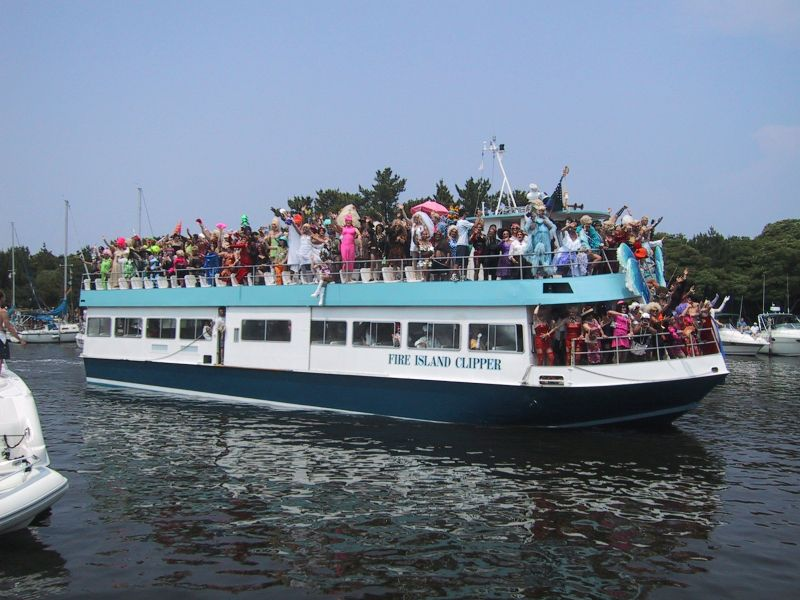 Invasion of the Pines 2001